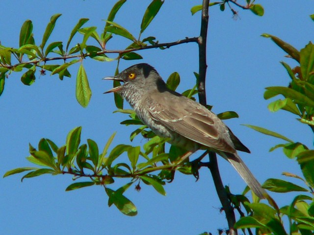 Barred Warbler, surroundings of Warsaw, Poland